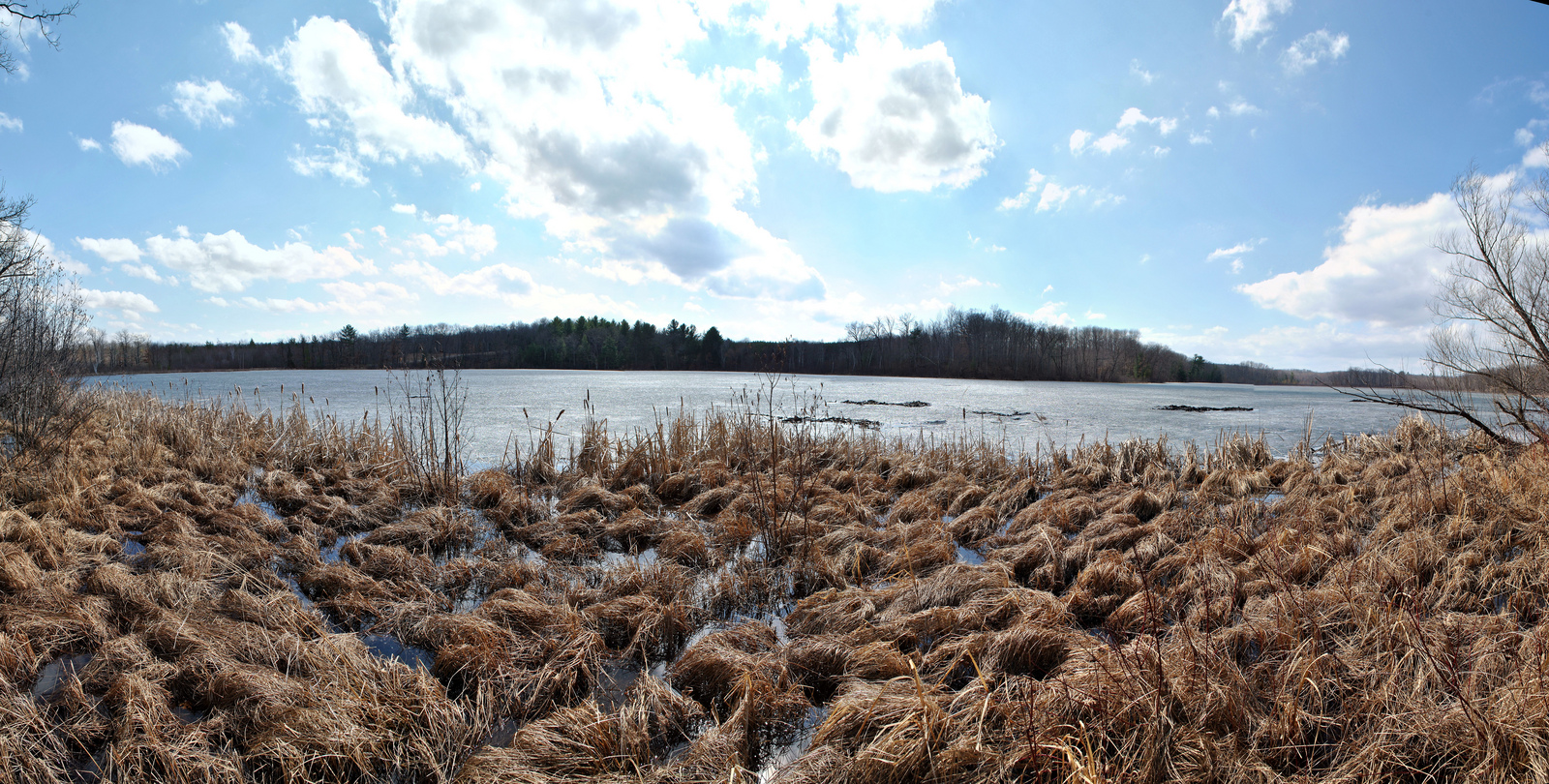 Plummer Lake, Chippewa Moraine Lakes State Natural Area, WI